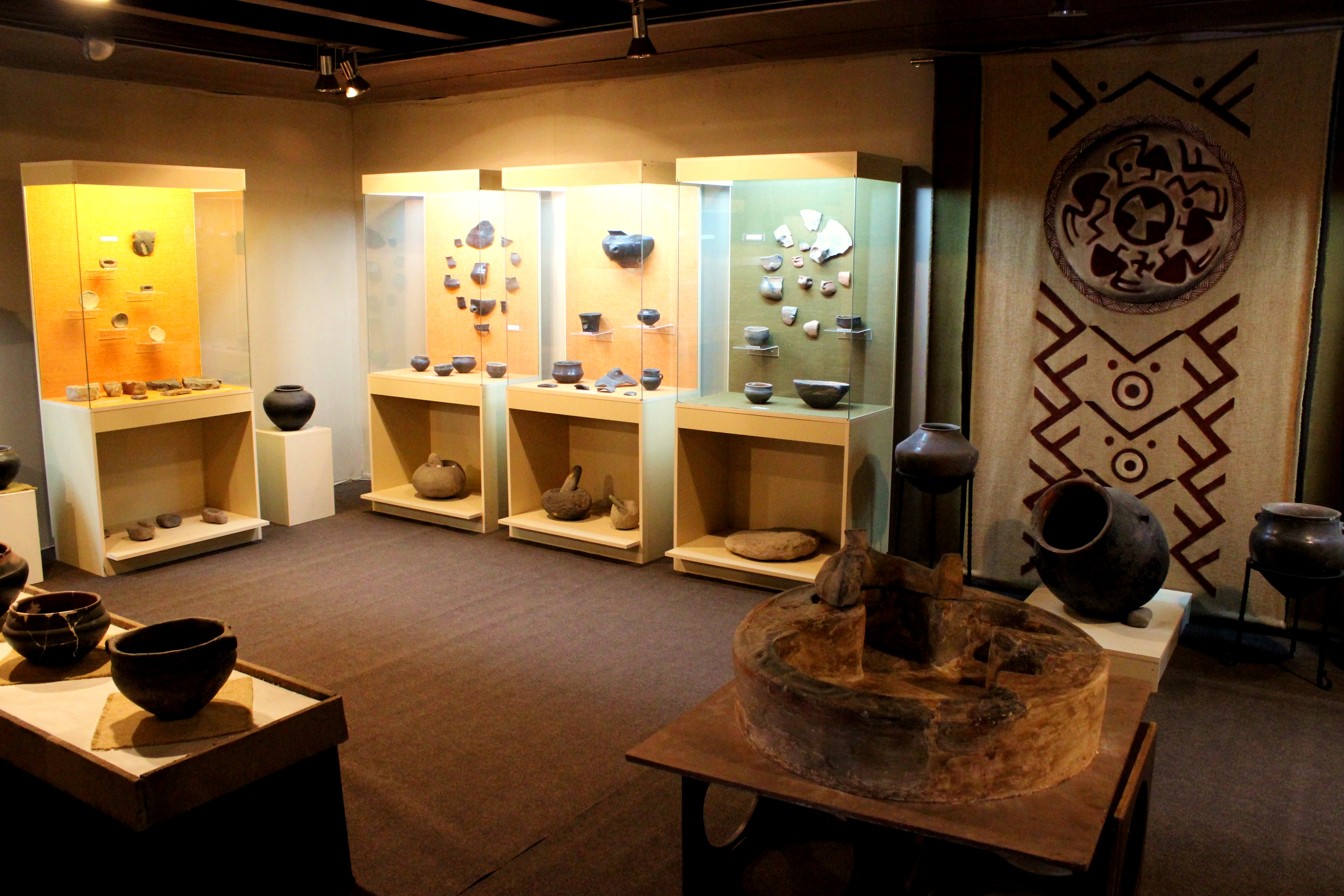 Shengavit Settlement Museum in Yerevan, Armenia